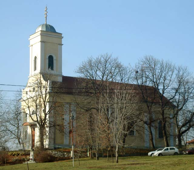 The Protection of the Mother of God Greek Catholic church, Miskolc-Görömböly, Hungary